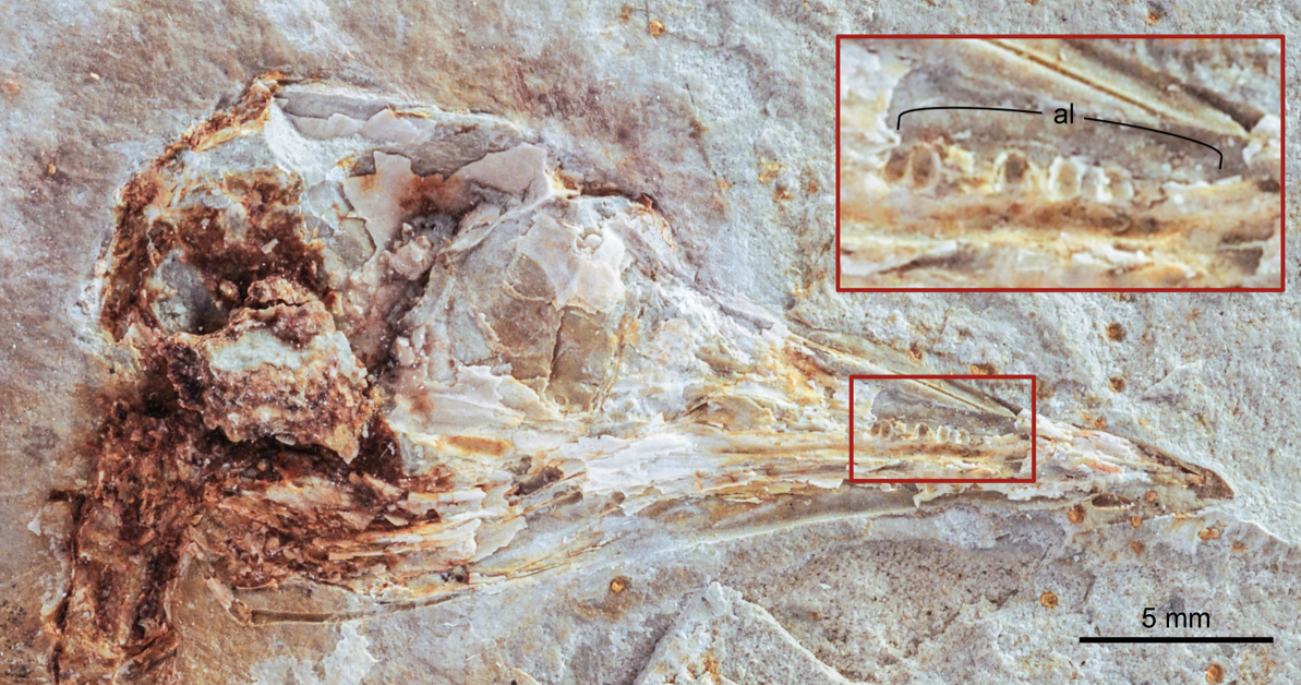 Closeup photograph of the skull of DNHM D2945 (Hongshanornis longicresta) in right lateral view and detail (inset) of the central portion of its maxilla. Abbreviations: al, alveoli (tooth socket).